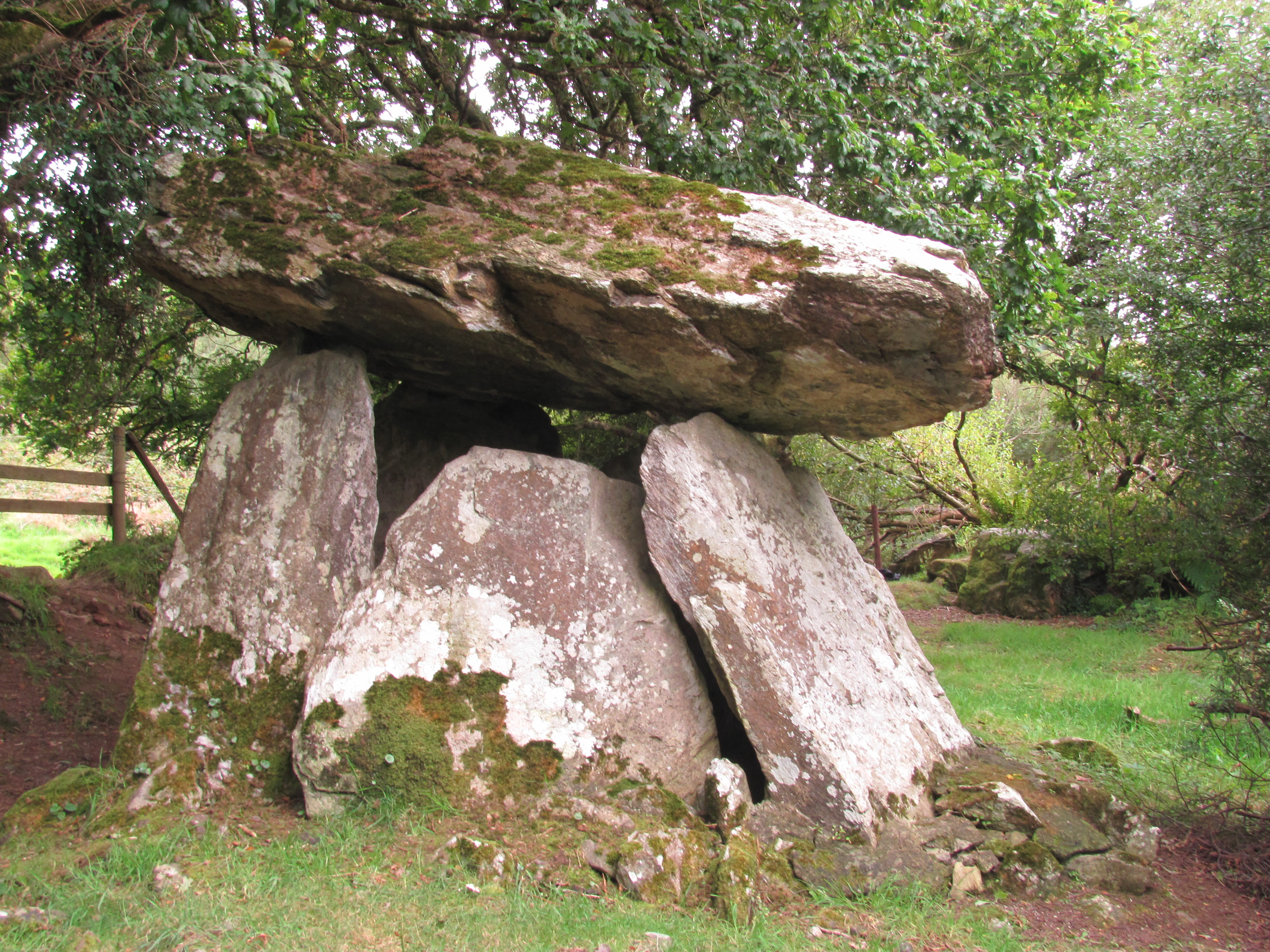 Gaulstown Dolmen